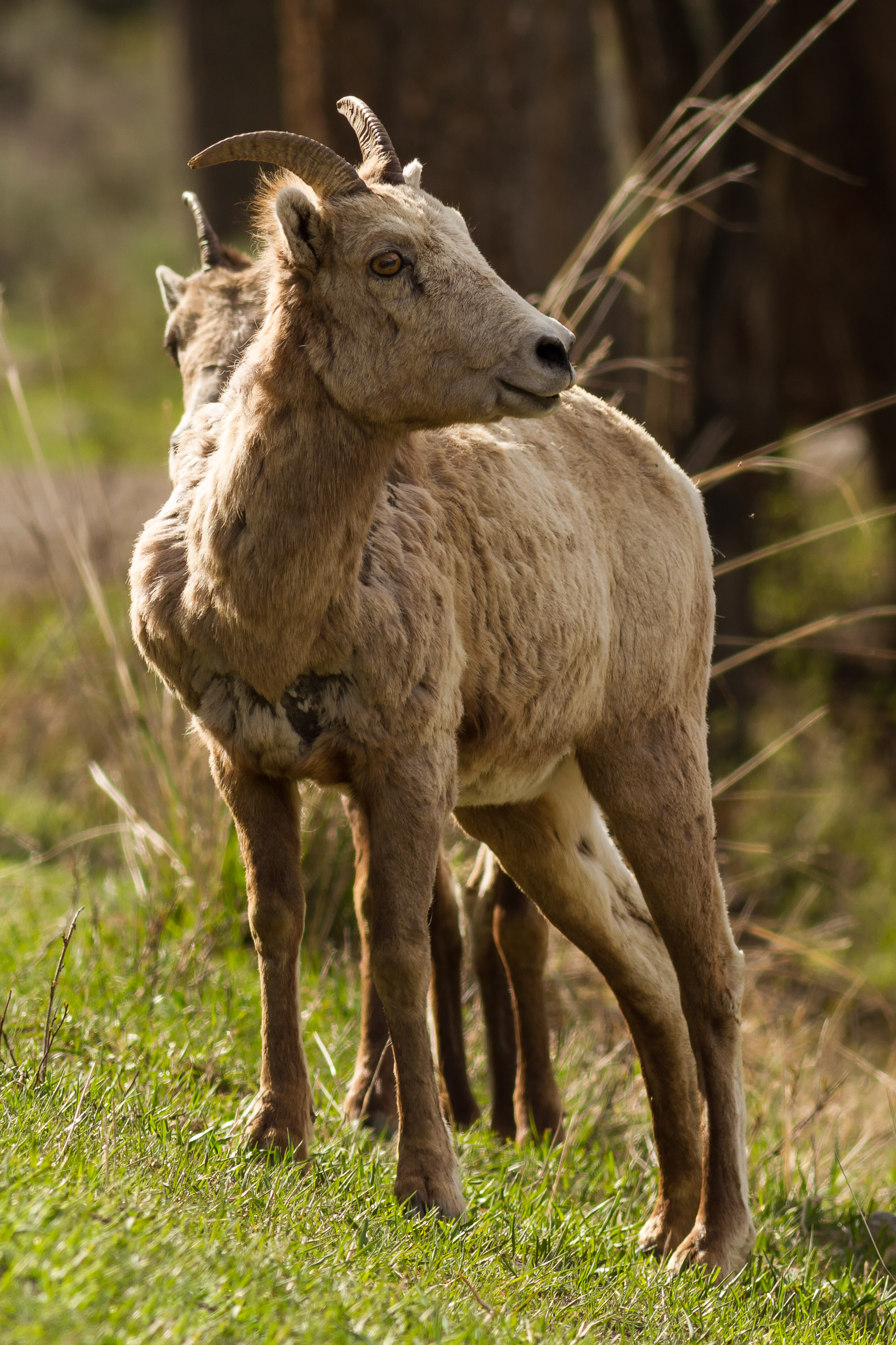 Female Rocky Mountain bighorn sheep (Ovis canadensis canadensis) in Yellowstone National Park, Wyoming, United States